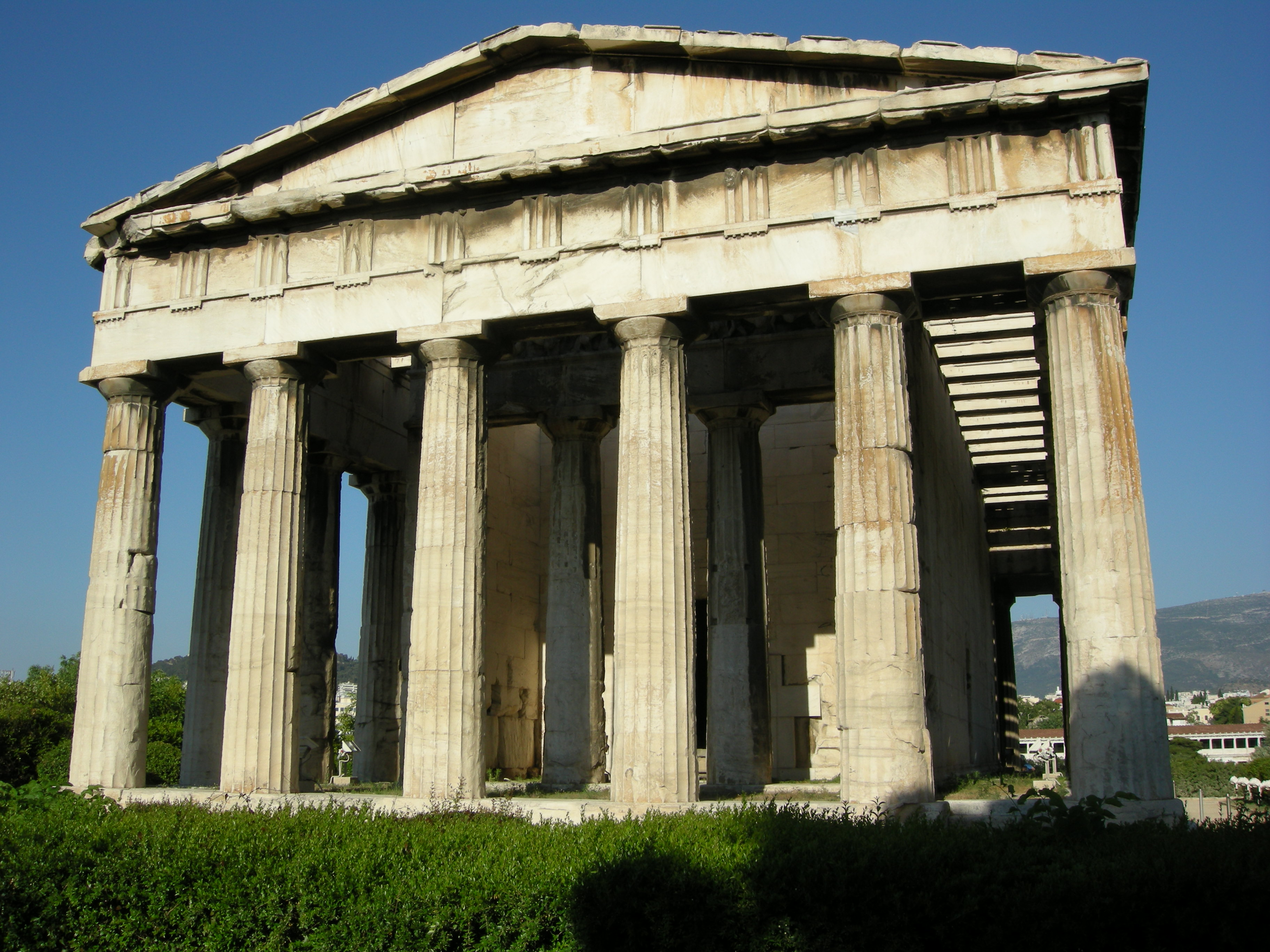 Temple of Hephaestus in Athens 02.1